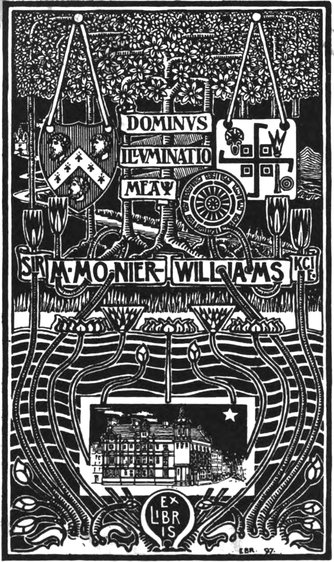 Bookplate of Sir Monier Monier-Williams, KCIE (12 November 1819 – 11 April 1899)